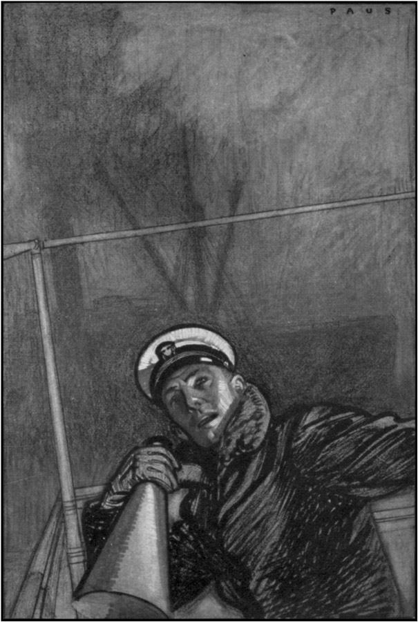 "Where you-all going?... Can't you-all see where you're going? Keep off—keep off."